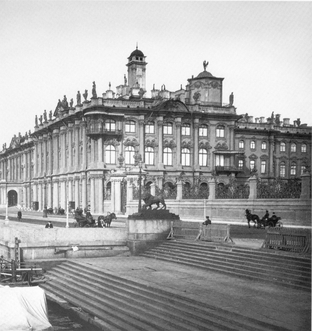 Saint Petersburg (Russia), Winter Palace.